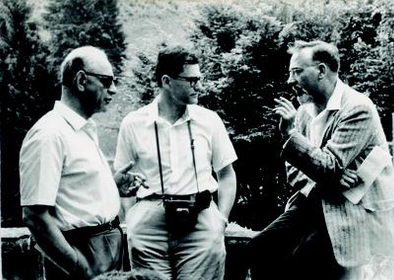 Kurt Hirsch (left), Karl W. Gruenberg (middle), R. Bruck (right) 1960